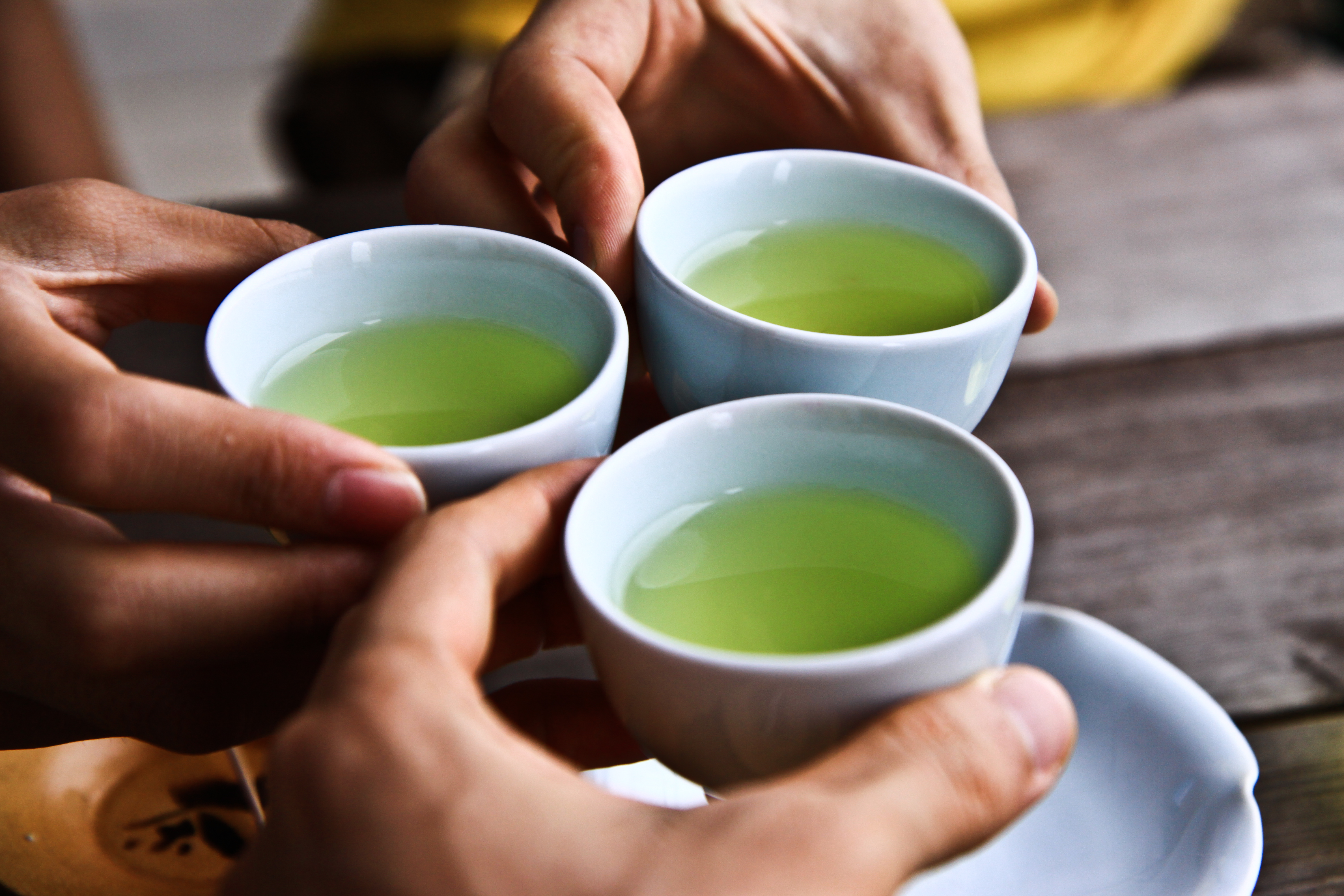 Boseong green tea